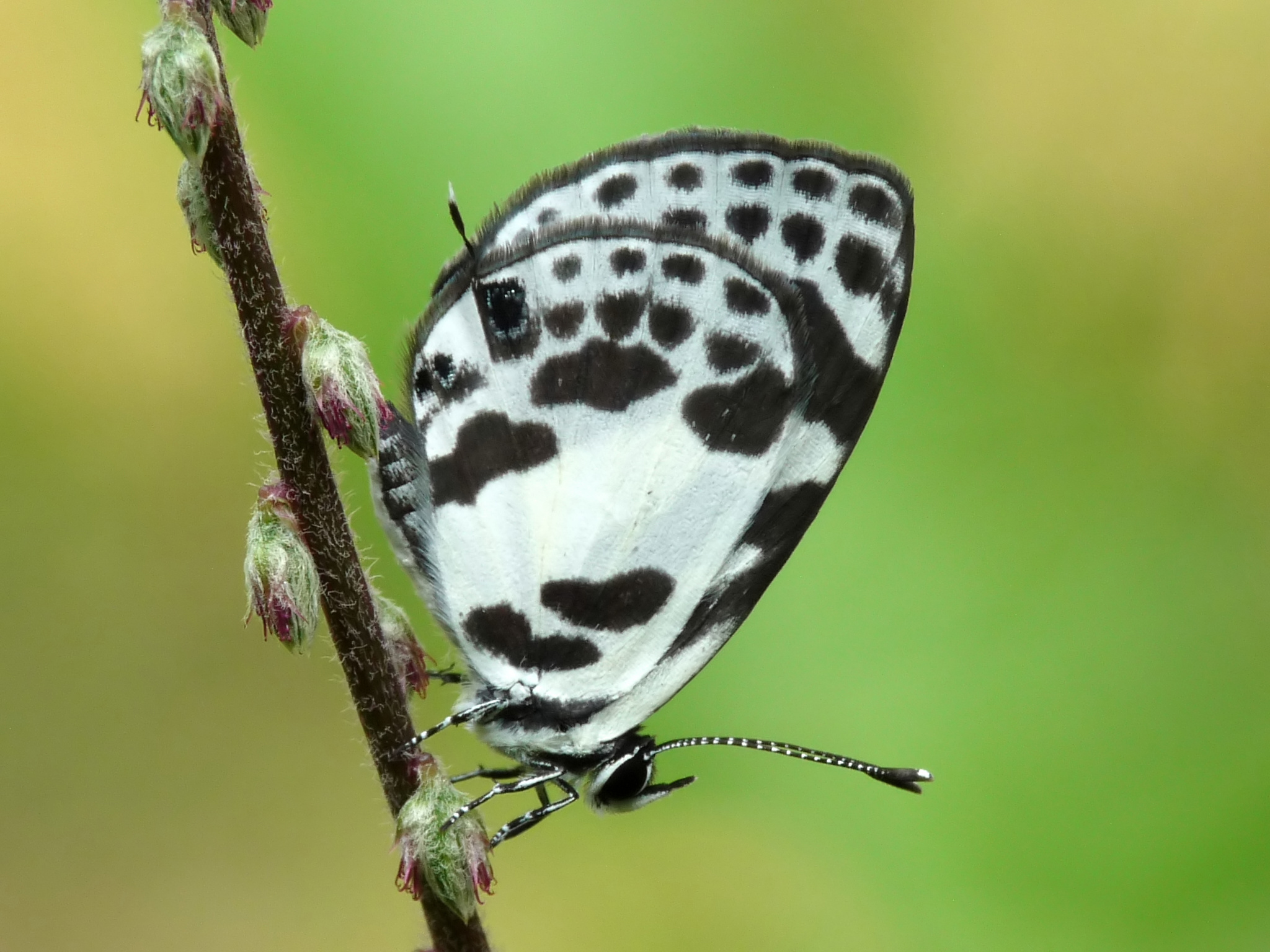 Discolampa ethion, Banded Blue Pierrot, is a contrastingly marked butterfly found in South Asia that belongs to the Blues or Lycaenidae family. Taken at Kadavoor, Kerala, India.